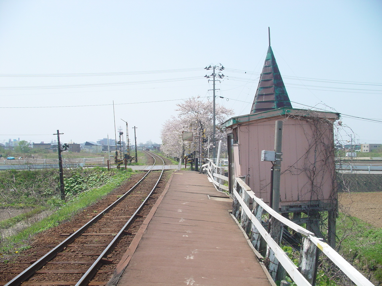 Togawa Station on the Tsugaru Railway in Aomori Prefecture